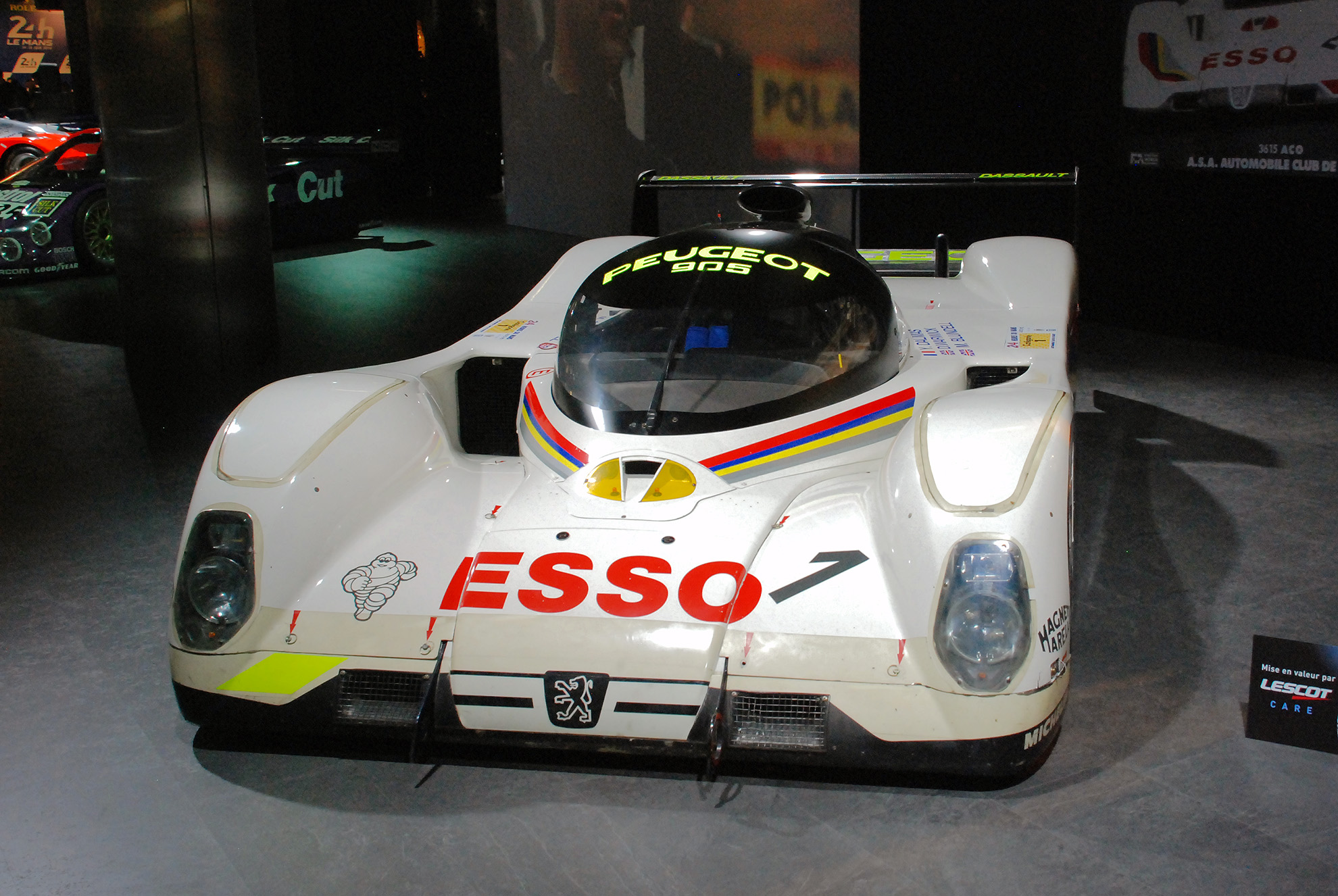 Peugeot 905 Evo 1B N° 2, winner of the 1992 24 Hours of Le Mans race